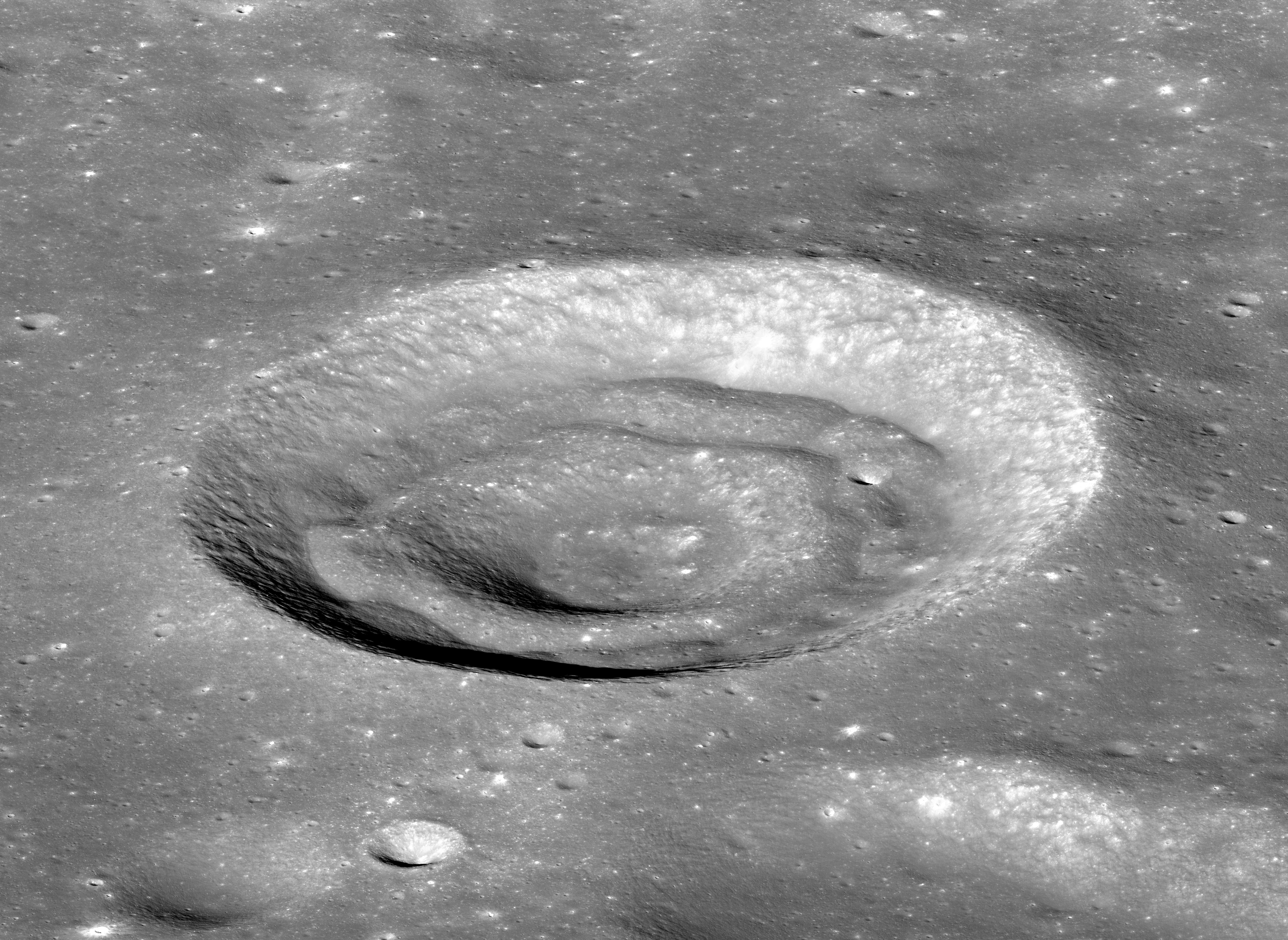 An unnamed concentric crater on the Moon, in Apollo Basin. Diameter is 11.5 km. Photo by Lunar Reconnaissance Orbiter, made with Narrow Angle Camera, looking to the east (north at right).